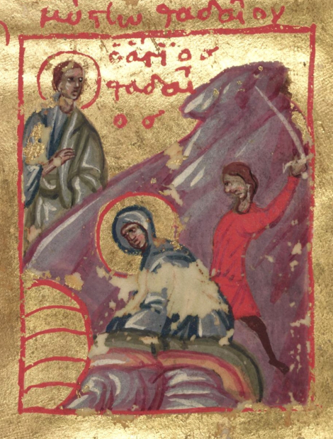 Saint Vassa of Thessaloniki 14th Century Icon in Oxford Menology